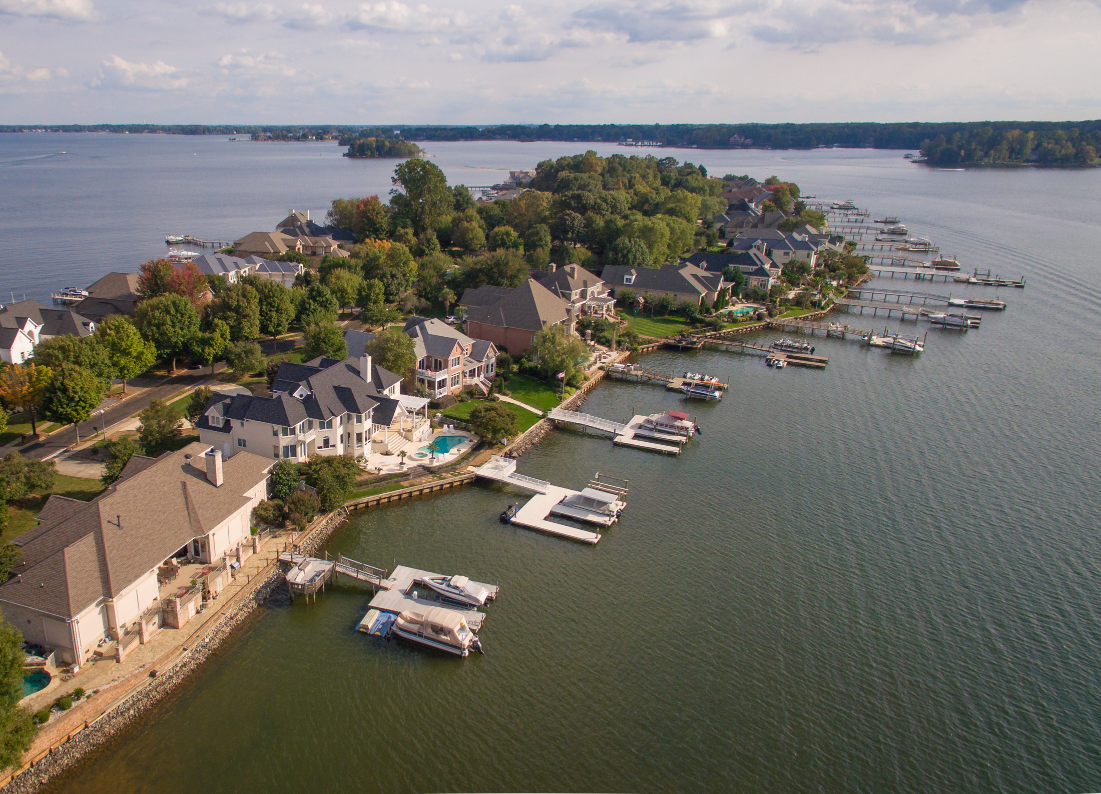 Aerial shot of Governors Island, A Lake Norman waterfront community in Denver NC.